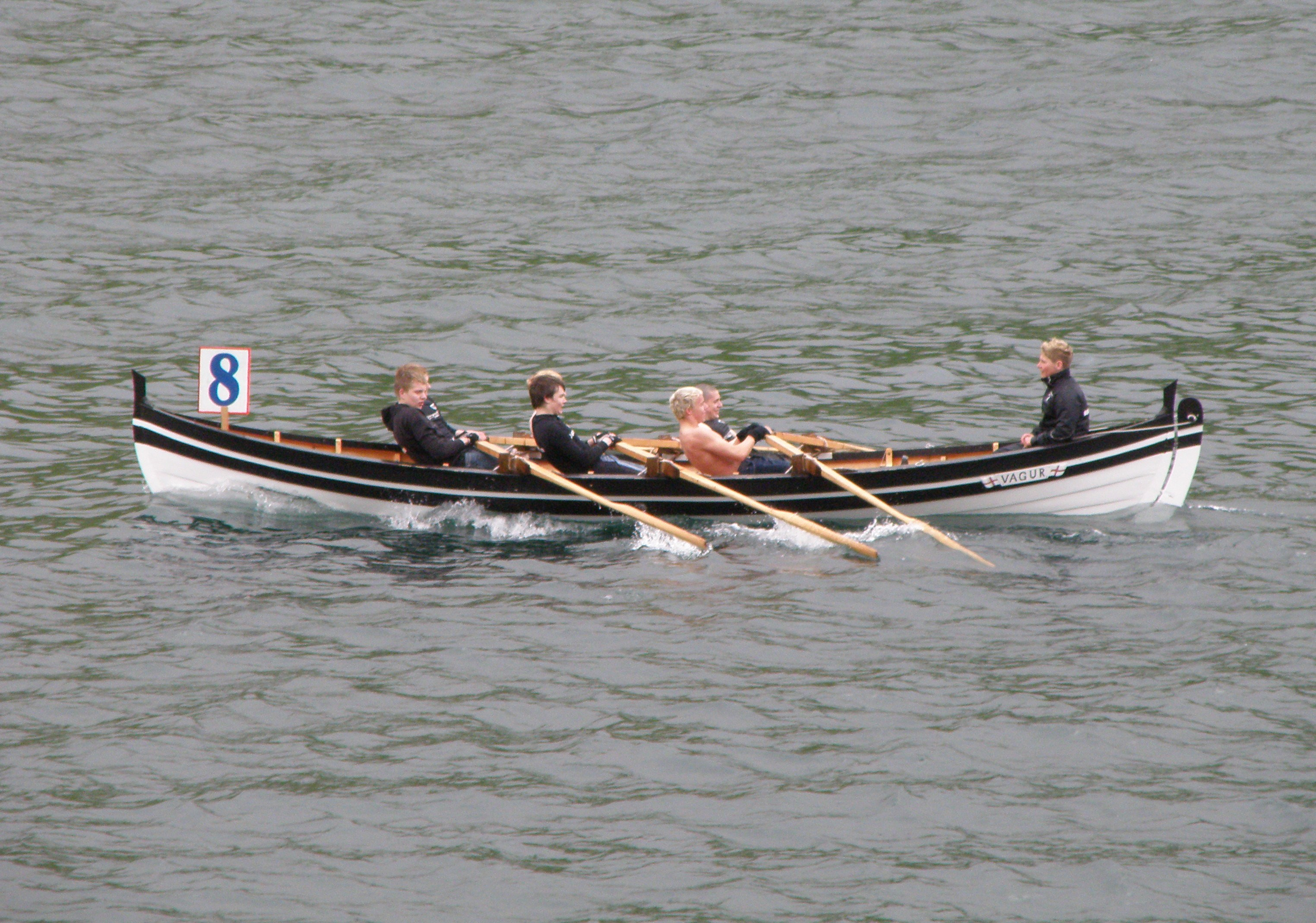 Royndin Fríða is a Faroese wooden boat from Vágur, Suðuroy, Faroe Islands. It is a so-called 5-mannafar; it was built in 2004 by boat builder Sámal Hansen. The boat is used for rowing competitions, which are held every summer around the islands at the "stevnur" (festivals). The rowing competitions start with the Norðoyastevna in Klaksvík in the Northern Islands and ends with the final rowing competition at Ólavsøka, the national holiday of the Faroe Islands, which is held in the capital Tórshavn. Ólavsøka is the only festival which is always held on the same day, the rowing competition at Ólavsøka is always held on the eve of Olavsoka which is on 28 July. This photo was taken at the Jóansøka festival in Vágur in Suðuroy, the hometown of this boat. They won their competition which was for boys rowing in 5-mannafør. Føroyskt: Royndin Fríða er kappróðrarbátur úr Vági, 5-mannafar. Sámal Hansen, bátabyggjari, smíðaði bátin í 2004. Myndin er tikin á Jóansøku í Vági 26. juni 2010. Royndin Fríða vann tann róðurin. Teir gjørdist tó ikki føroyameistari men nummar tvey.